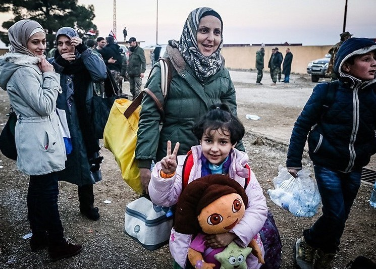 Arrival of residents of Al-Fu'ah and Kfrya to Aleppo - December 2016